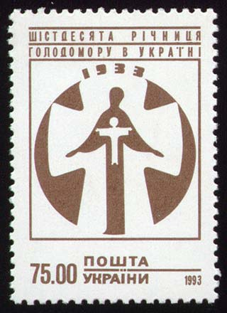 Holodomor Stamp of Ukraine